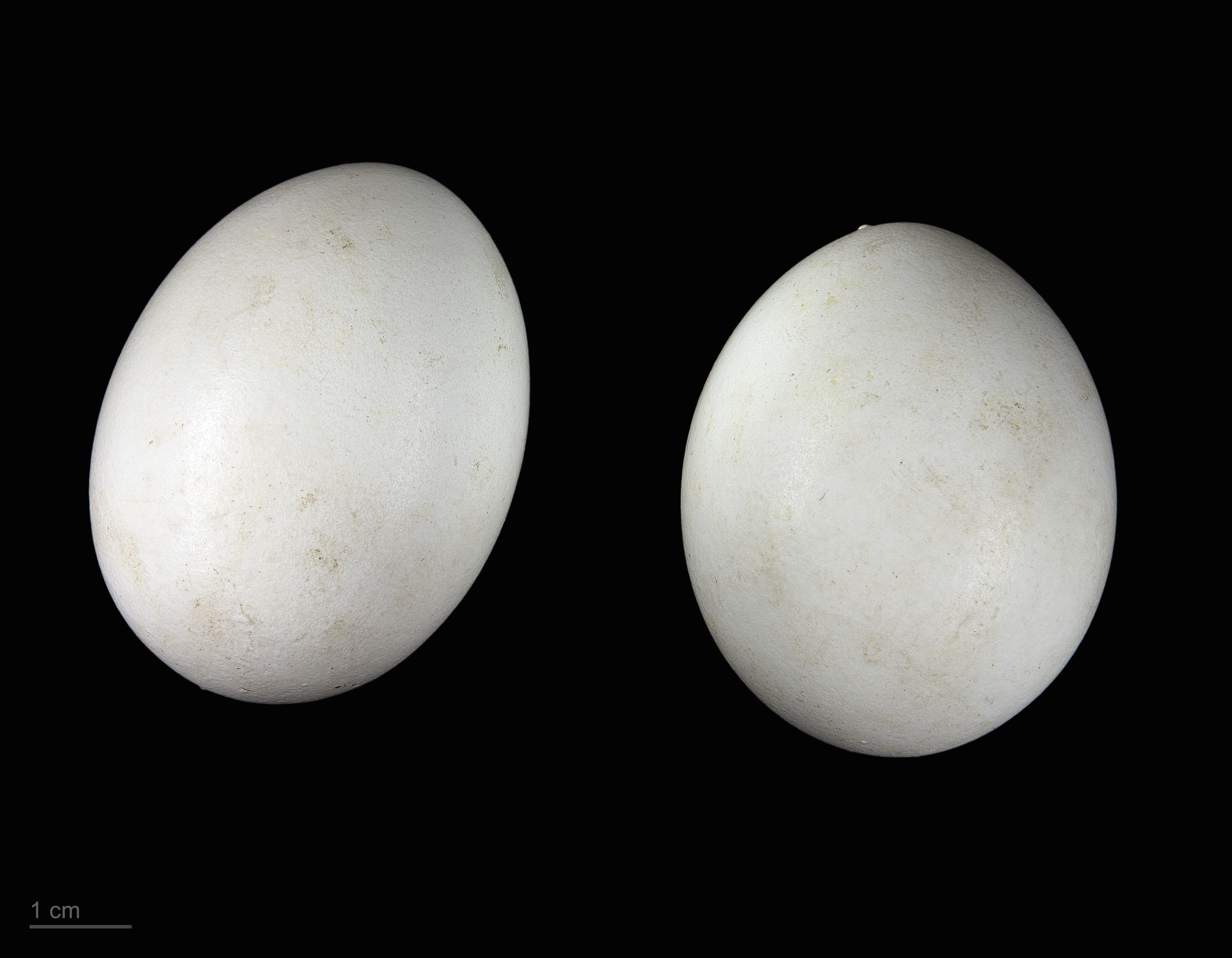 Eggs of western marsh harrier Two specimens of the same spawn ; collection of Jacques Perrin de Brichambaut.